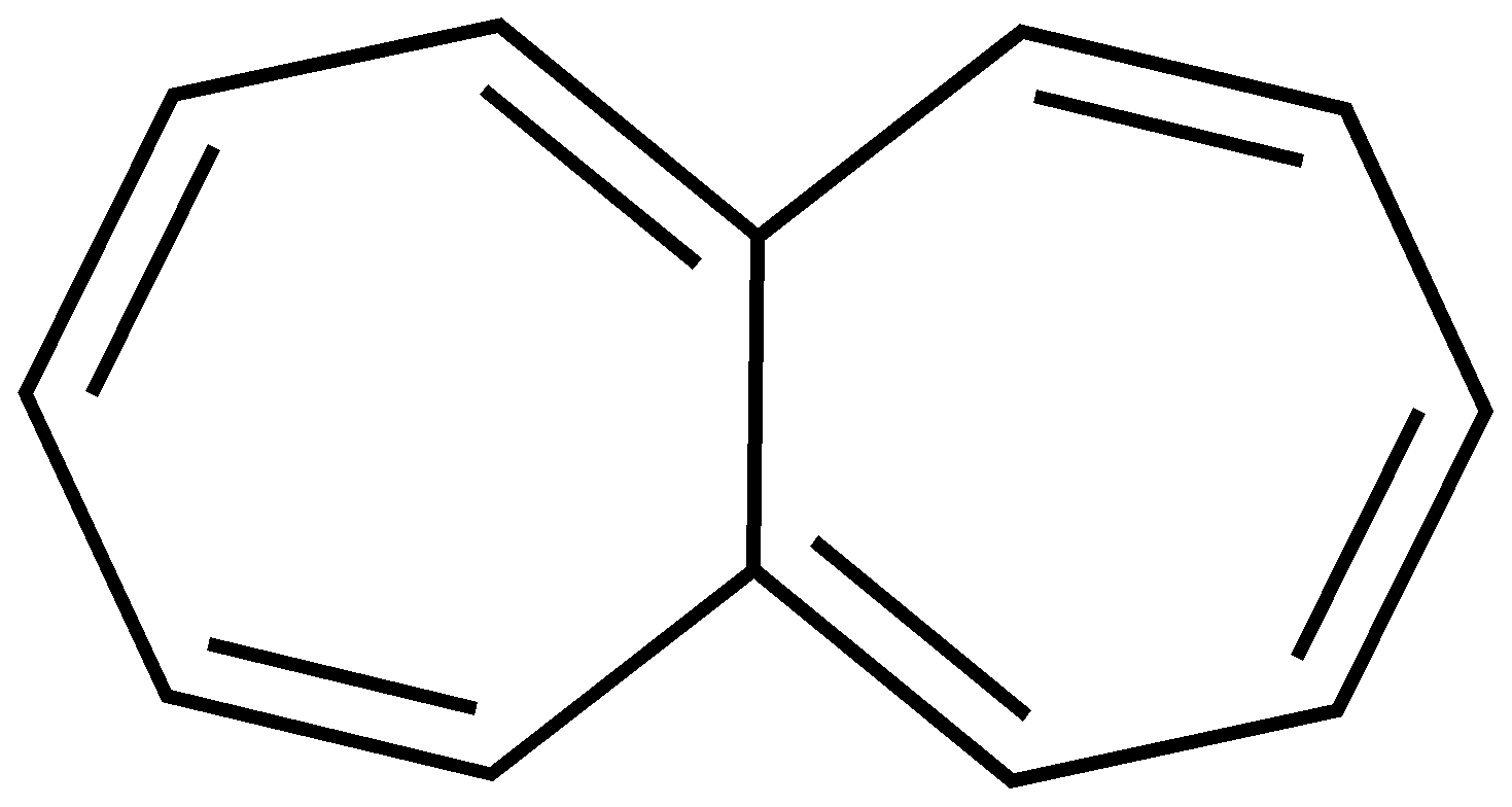 chemical structure of heptalene